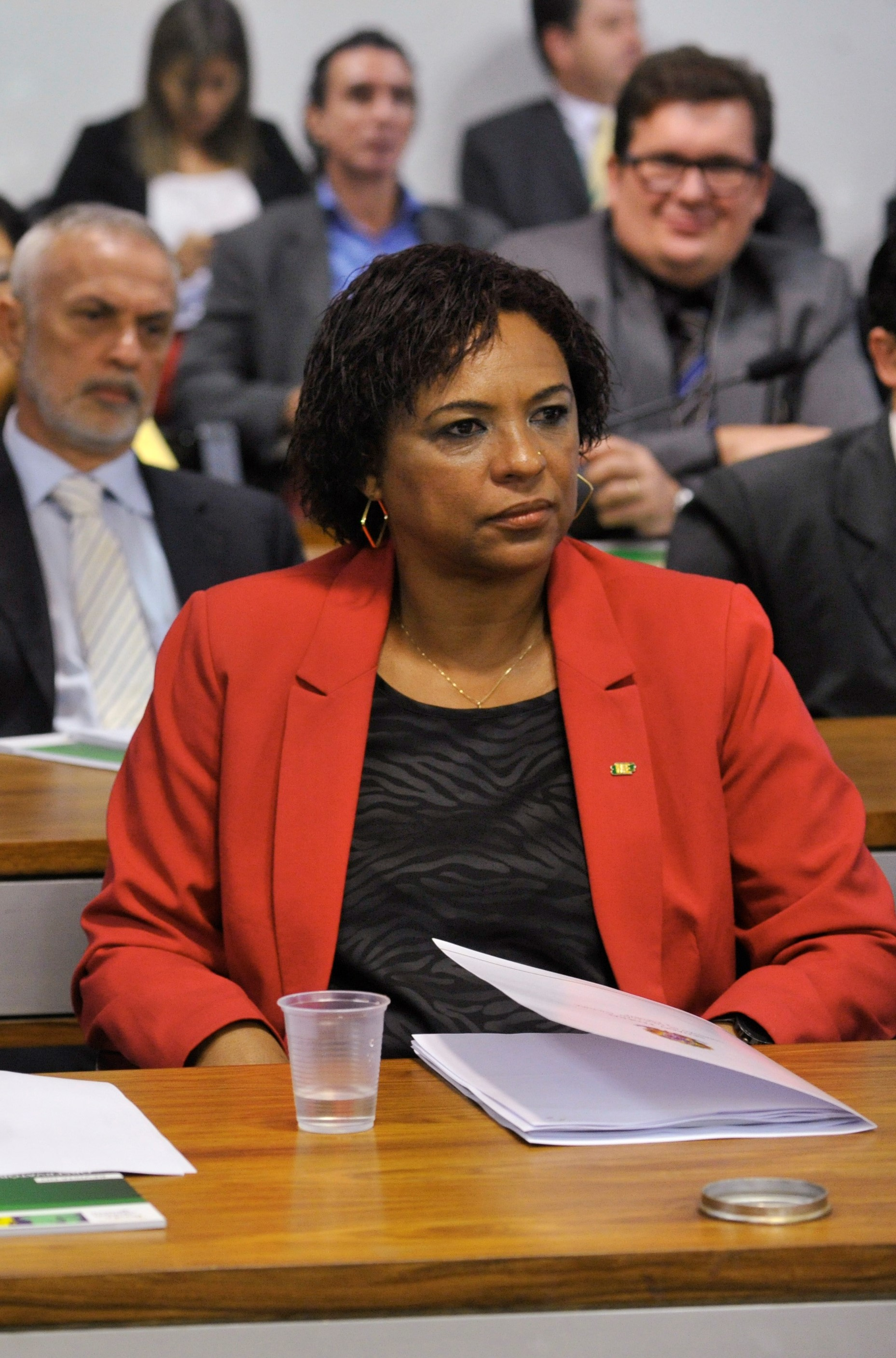 Commission for Education, Culture, and Shows (CE) conducts an interactive public hearing to discuss women's football in the world and in Brazil; Government programs and funding lines for the sector. To the right, a marketing director for the Ministry of Sport, Mariléia dos Santos (Michael Jackson). Photo: Geraldo Magela / Agência Senado